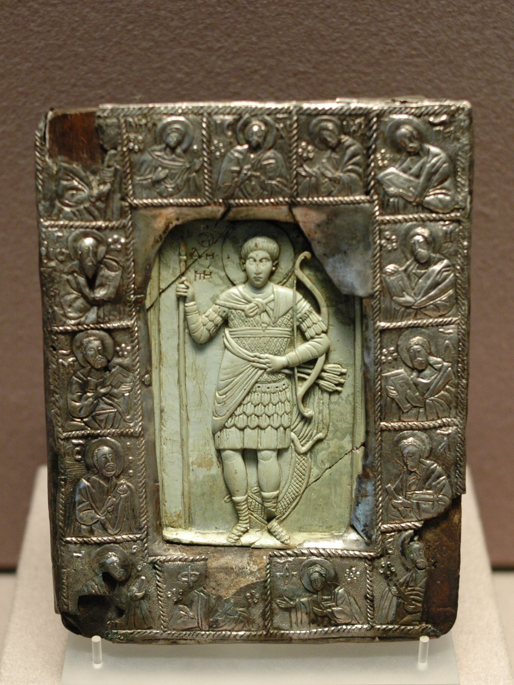 Icon with Saint Demetrios (Byzantine Empire, early 14th century) and frame (Balkans, 16th century).